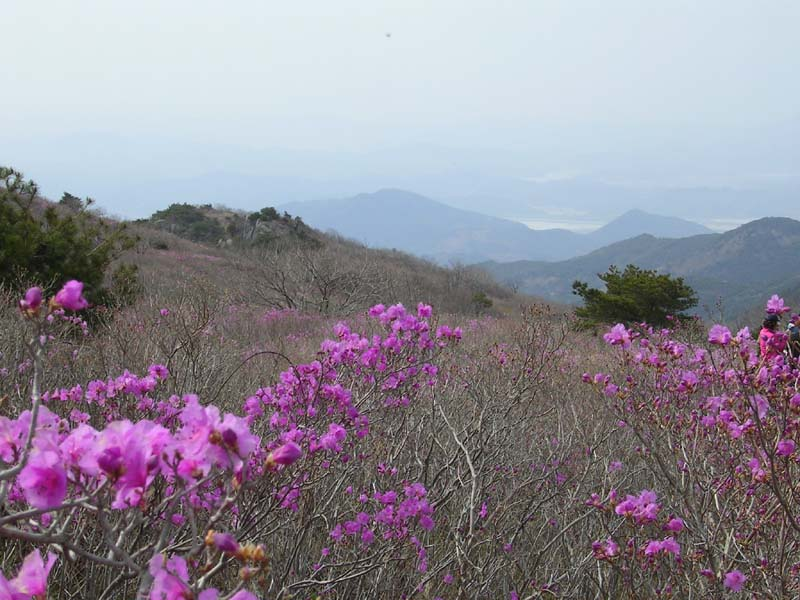 A scene of the Mount Biseulsan, Daegu, South Korea